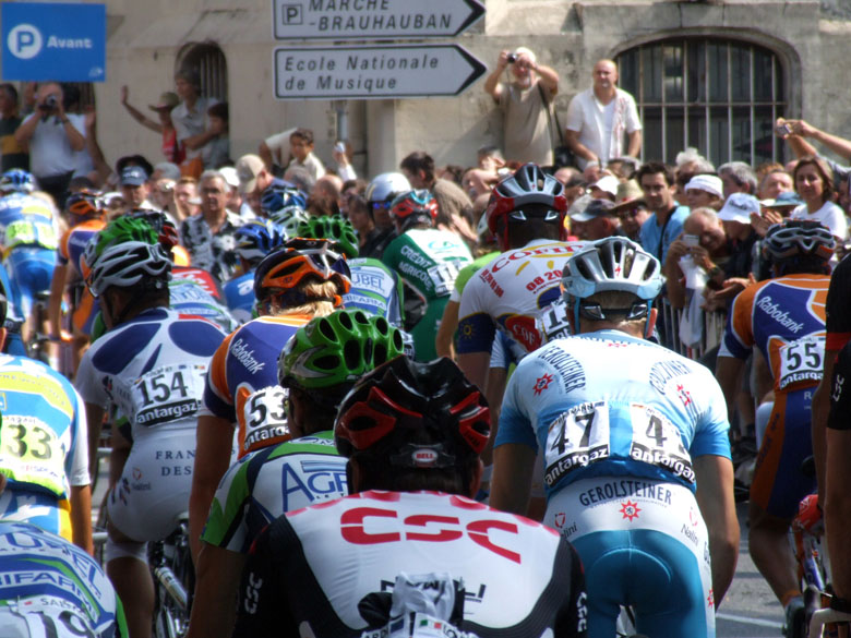 Picture taken by Stitchface in Tarbes.